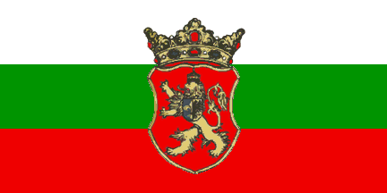 Flag of bulgarian national minority in Serbia